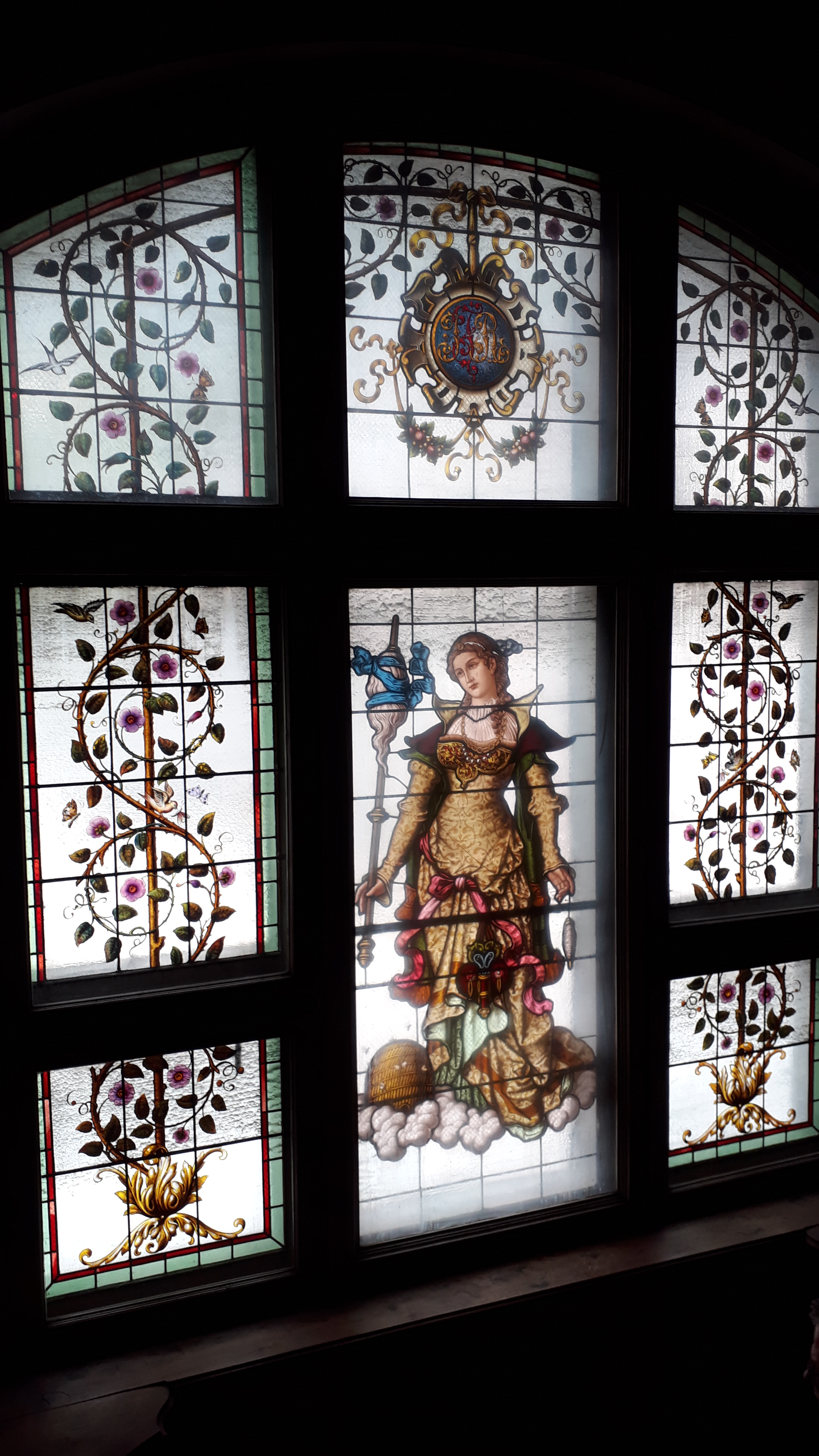 Glass window with figures and ornaments in the main staircase in the Villa Ivan Rosenthal, Radetzkystraße No. 1 in Hohenems, Vorarlberg, Austria. Built in 1890, main building with hipped and cross-gabled roof, cube-shaped with klassizisierender entrance section, side wings, Wirtschaftstrakt with half-timbered.